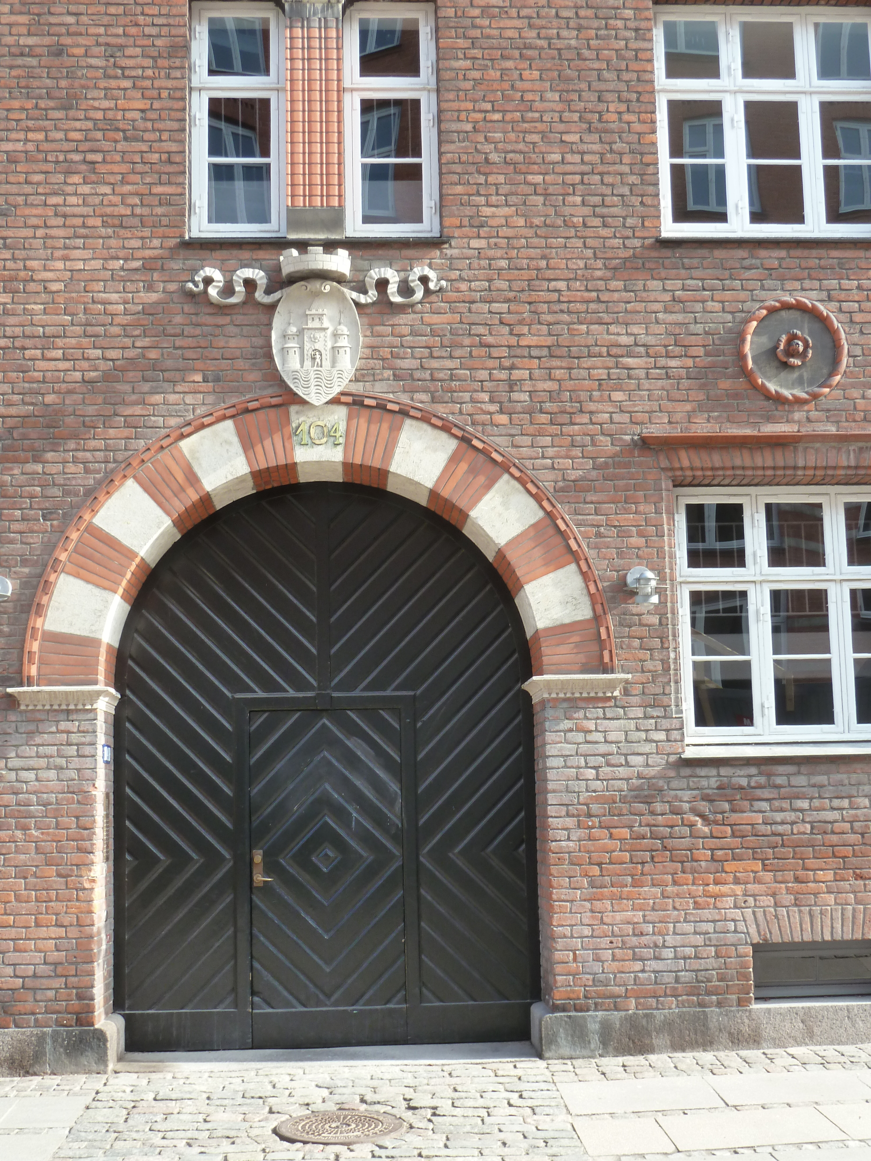 A gate on the Ryesgade side of Soldenfeldts Stiftelse in Copenhagen, Denmark